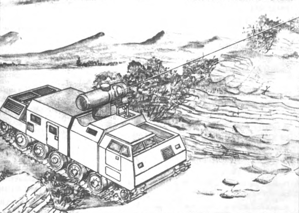 AirLand Laser System concept